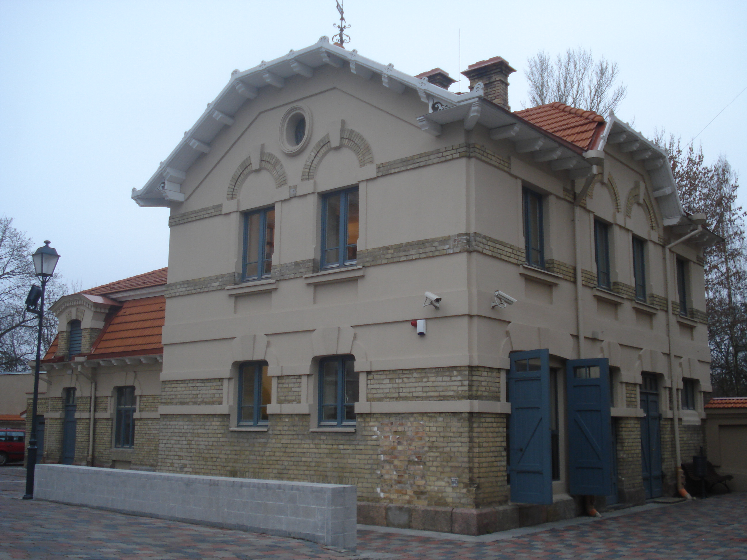 The Institute of Lithuanian Literature and Folklore in the palace of the Vileišis family (designed by August Klein, erected by Lithuanian engineer Petras Vileišisin in 1904-1906). Additional building. Vilnius, Antakalnio g. 6